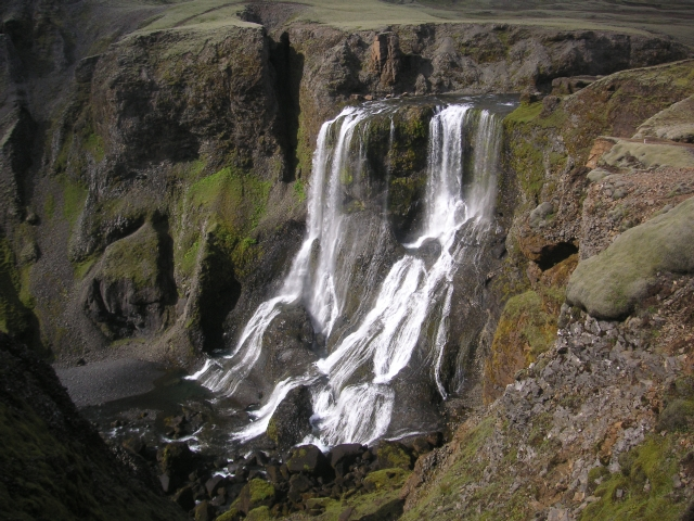 Fagrifoss, Iceland